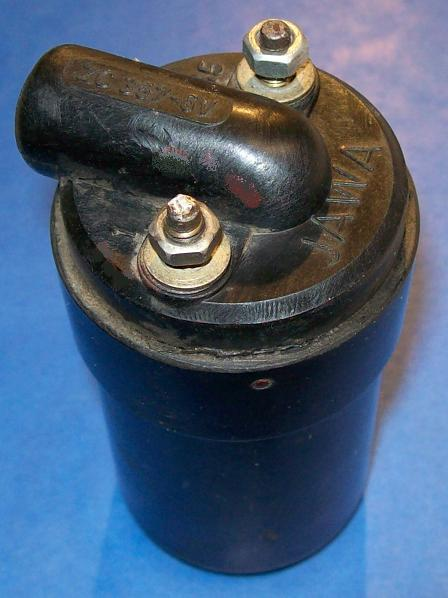 ignition coil from a motor bike